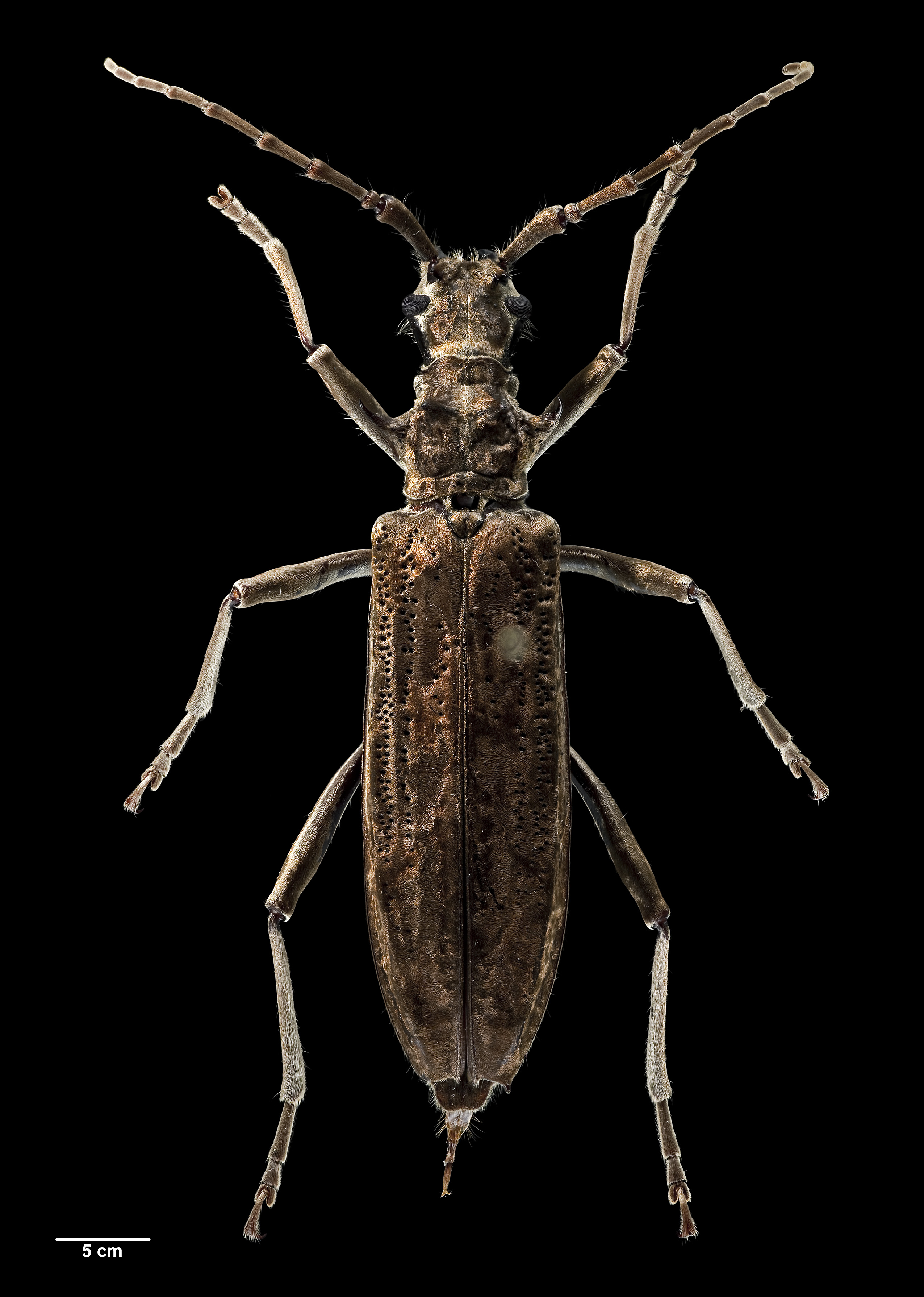 Dorsal view of Blosyropus spinosus specimen held at Auckland Museum licensed under CC BY 4.0.